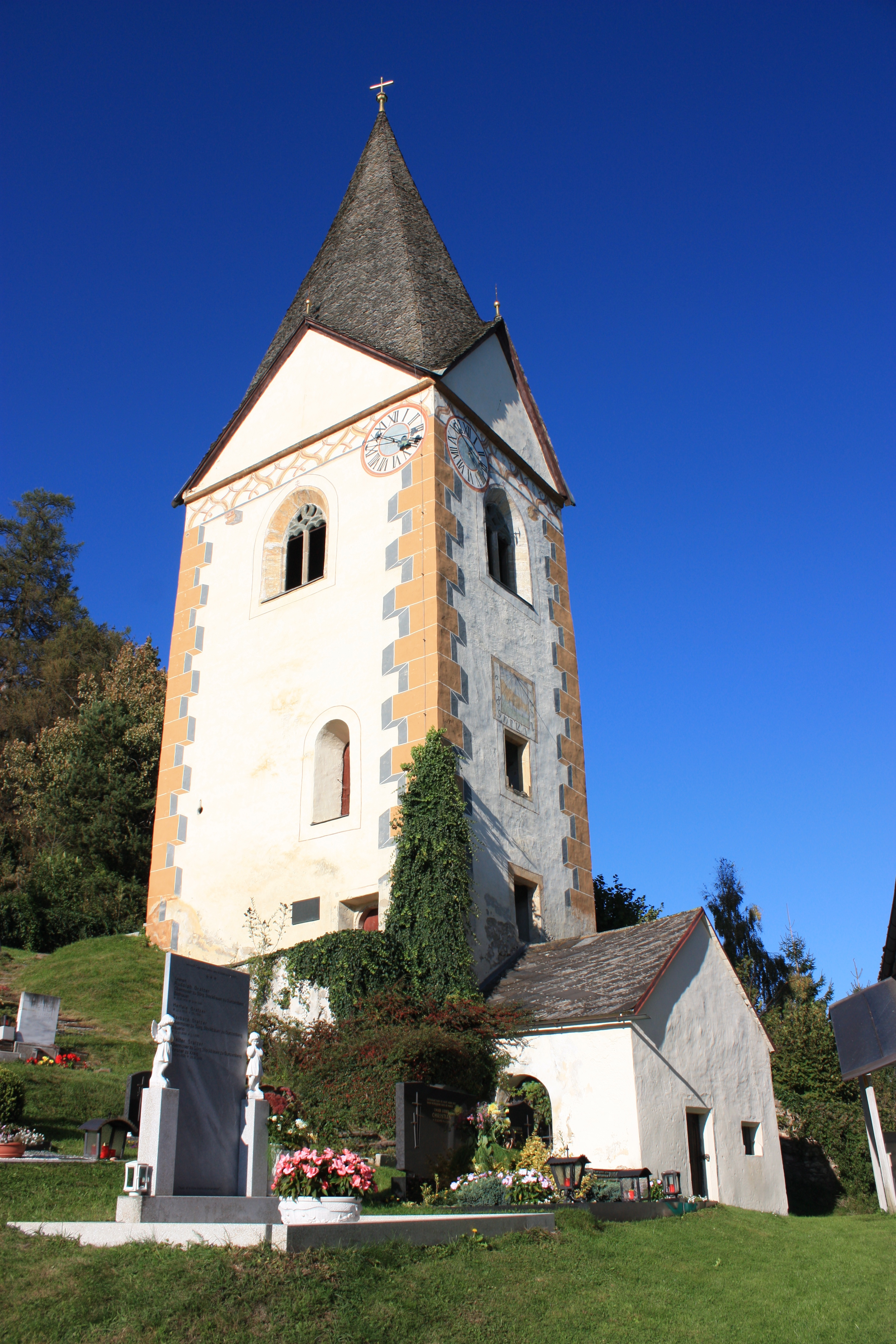 Defense tower Locality: Kraig Community:Frauenstein